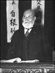 Japan’s Finance Minister Korekiyo Takahashi (高橋是清, 1854–1936) giving an address, possibly at the Parliament (衆院本会議場における財政方針演説か？ 後方垂れ幕に「[内閣総] 理大臣 岡田 [啓介]」「[内閣書記官] 長 白根竹 [介]」の名が見える).